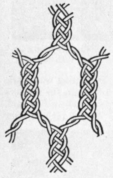 Fig. 41.--Enlargement of Brussels Mesh. Illustration from 1911 Encyclopædia Britannica, article Lace.